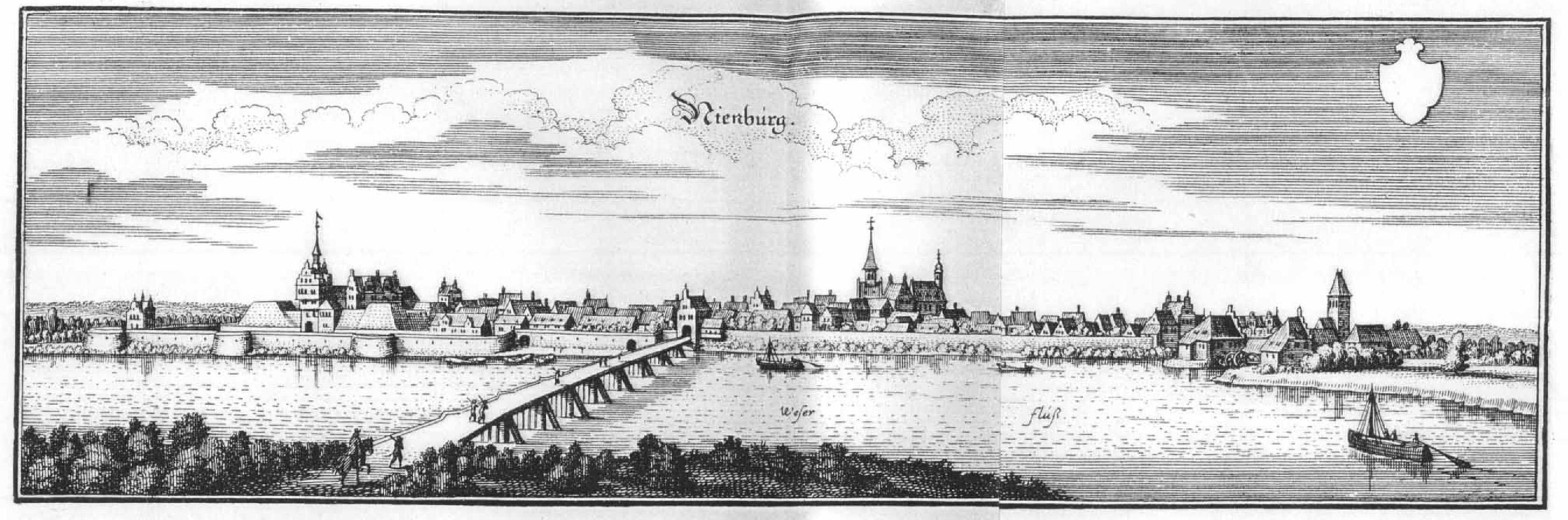 This is a scan of the historical document:Publication date 1647publication_date QS:P577,+1647-00-00T00:00:00Z/9Source